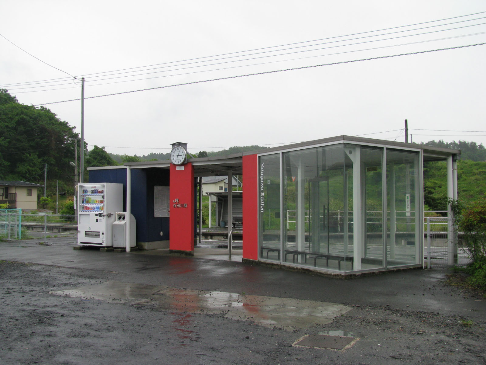 Yatagawa Station on Suigun Line